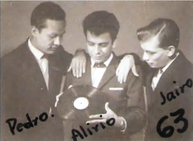 Pedro-Alirio-Jairo